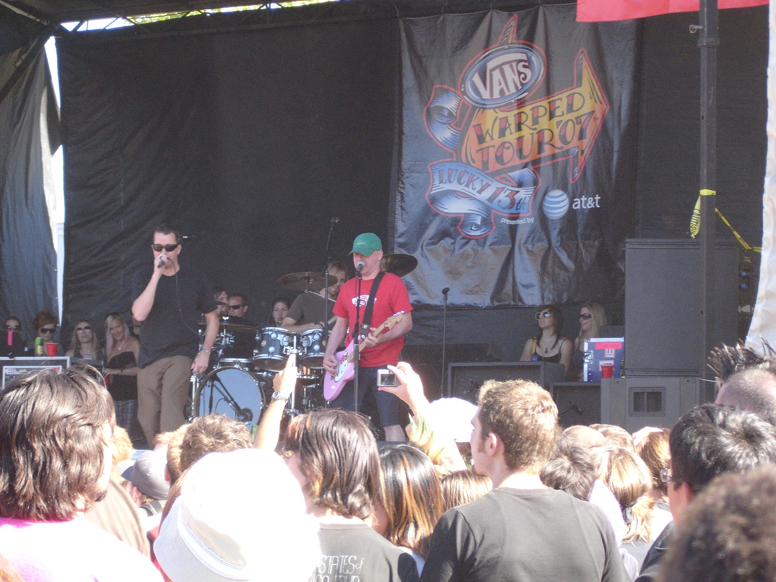 The Vandals peforming on the Warped Tour at the Shoreline Amphitheater in Mountain View, California on July 1, 2007. Members pictured are singer Dave Quackenbush (left) and guitarist Warren Fitzgerald (right). Substitute drummer Brooks Wackerman is at center, filling in for regular drummer Josh Freese. Bassist Joe Escalante is not pictured, as he stands out of frame to the left.